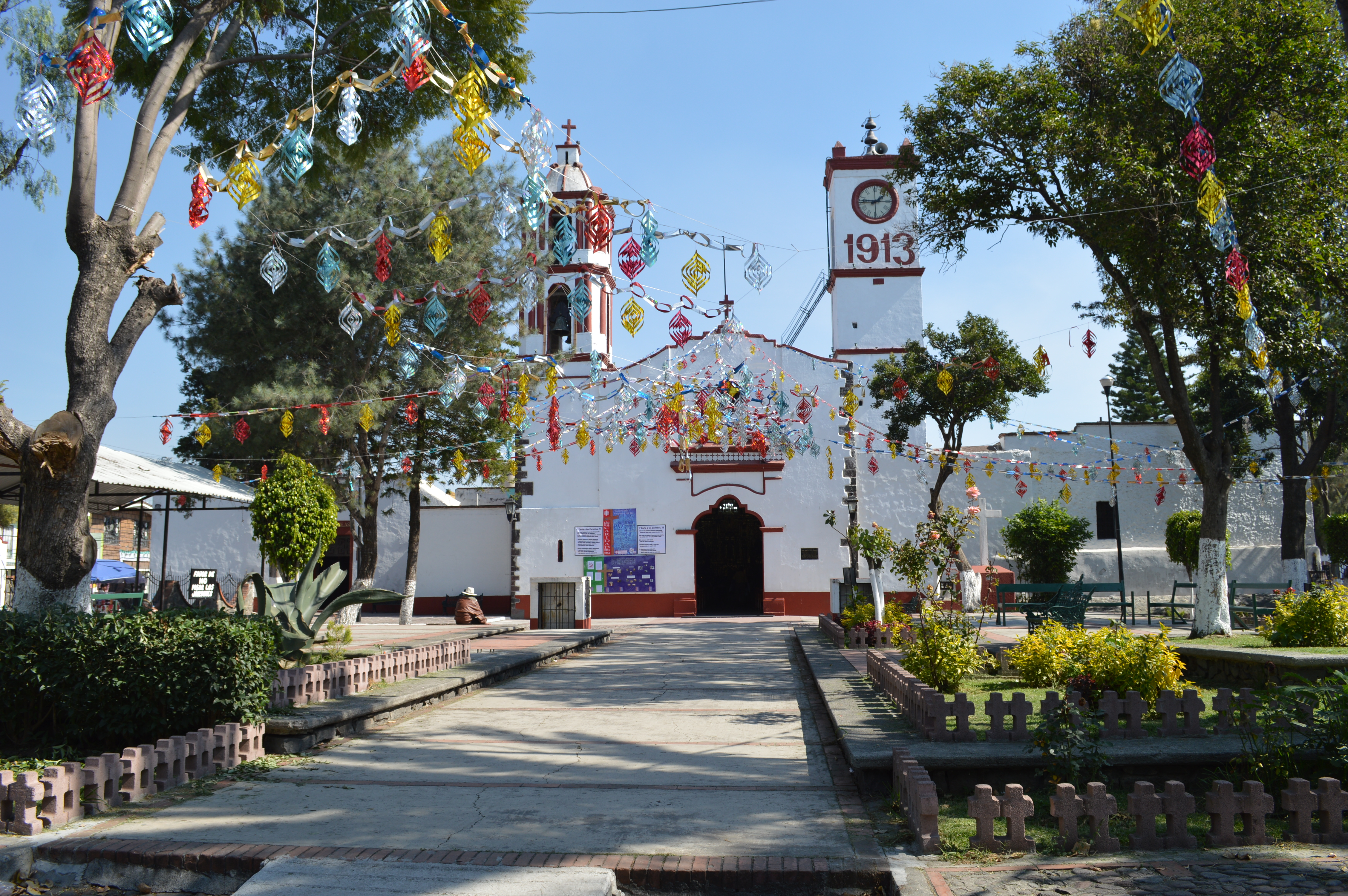 View of the San Francisco Tlaltenco parish church in the Tlahuac borough of Mexico City